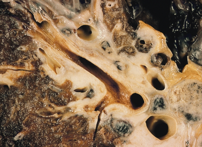 LOWER RESPIRATORY TRACT: SMALL CELL CARCINOMA Cross section of this surgically resected tumor shows peribronchial and perivascular infiltration by a white soft tumor which also involves a hilar lymph node.